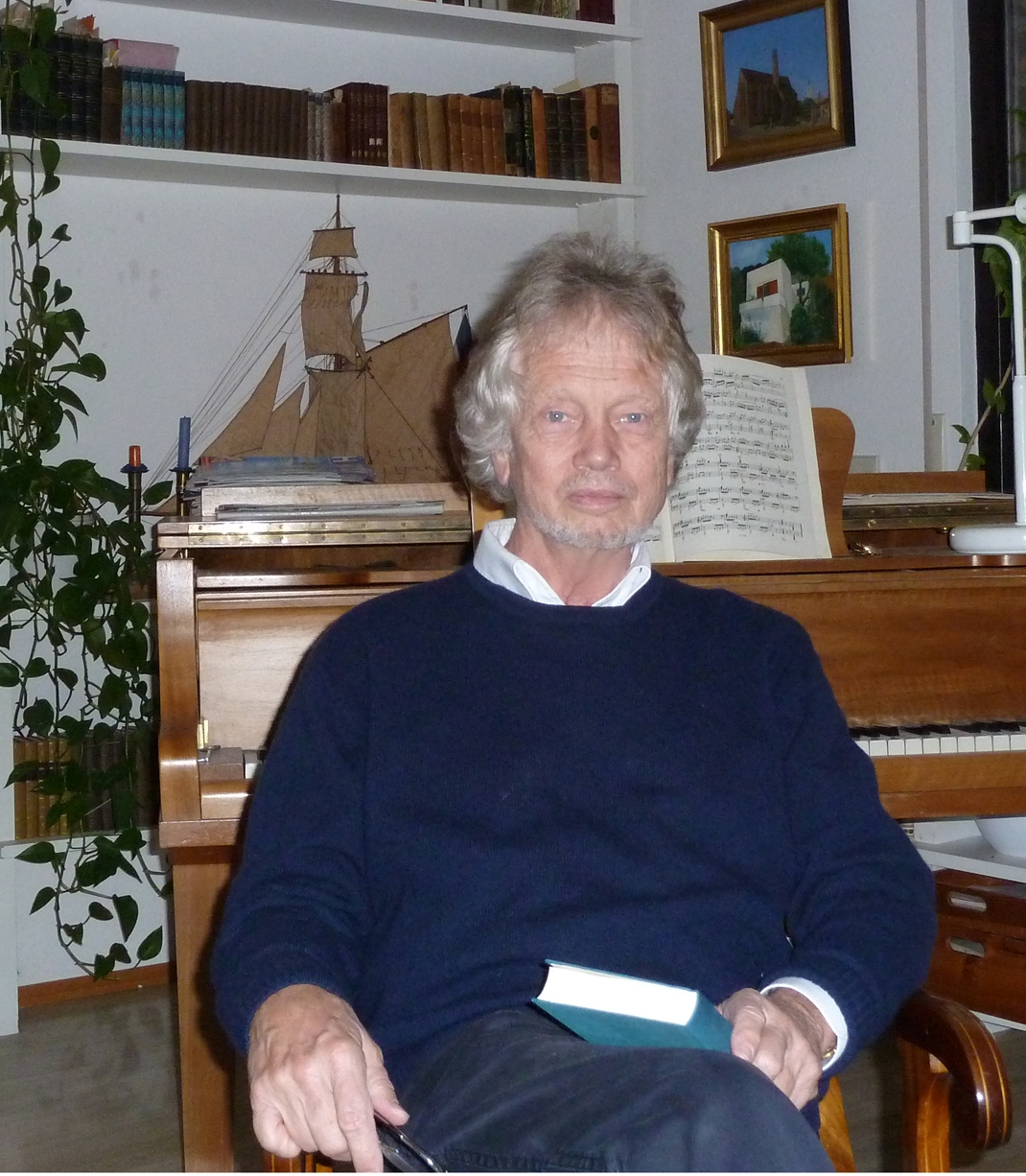 Thomas Kuchenbuch-Henneberg